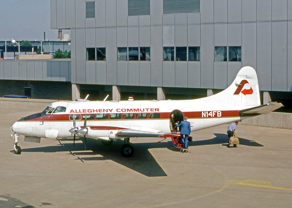 Dehavilland DH.114 Heron 2 N14FB of Fischer Brothers operating for Allegheny Commuter fitted with Lycomings 1982